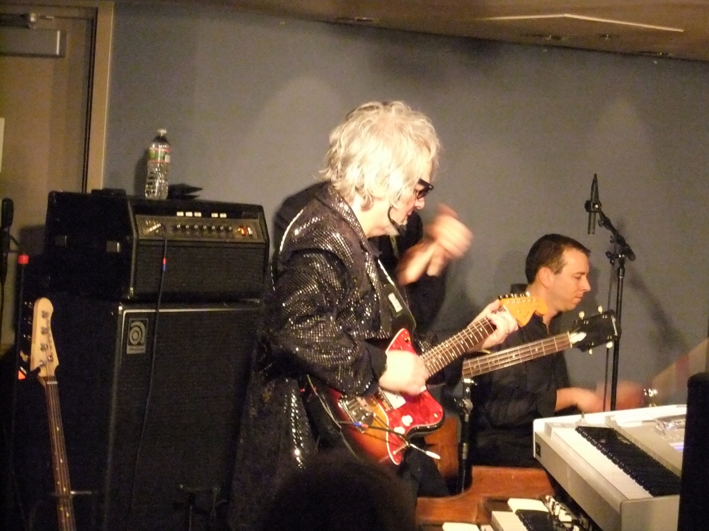 Al Kooper, who founded Blood, Sweat, and Tears and The Blues Project-also played on Bob Dylan albums(he played organ on "Like A Rolling Stone")-celebrated his 68th birthday at The Regatta Bar in Cambridge, Massachusetts on Feb. 4, 2012.